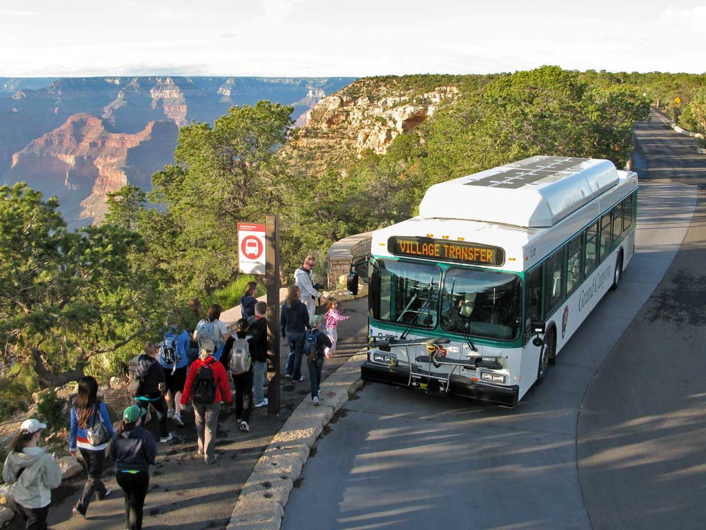 Shuttle Bus for Hermits/Village Route